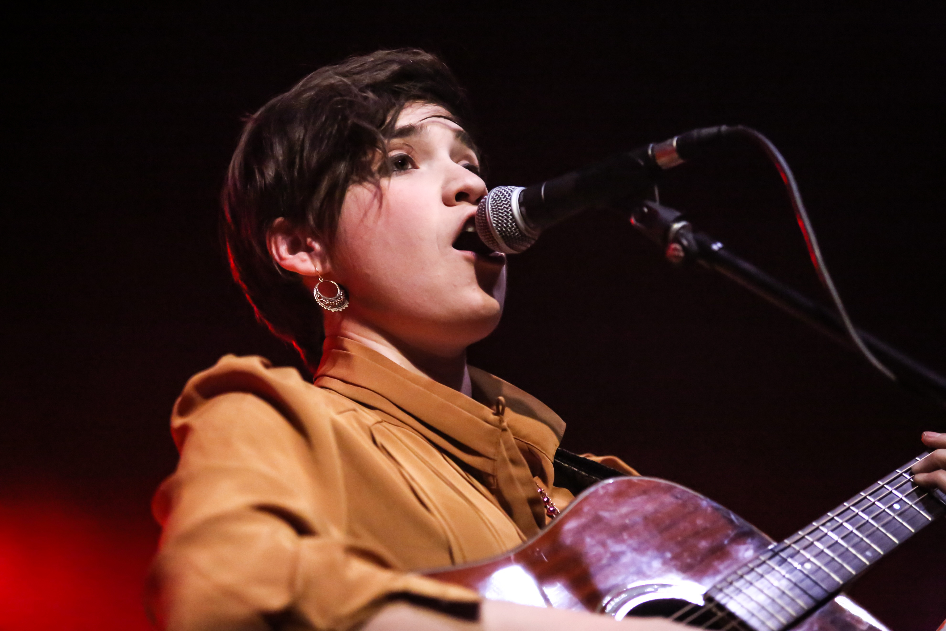 Reina Del Cid First Avenue Minneapolis